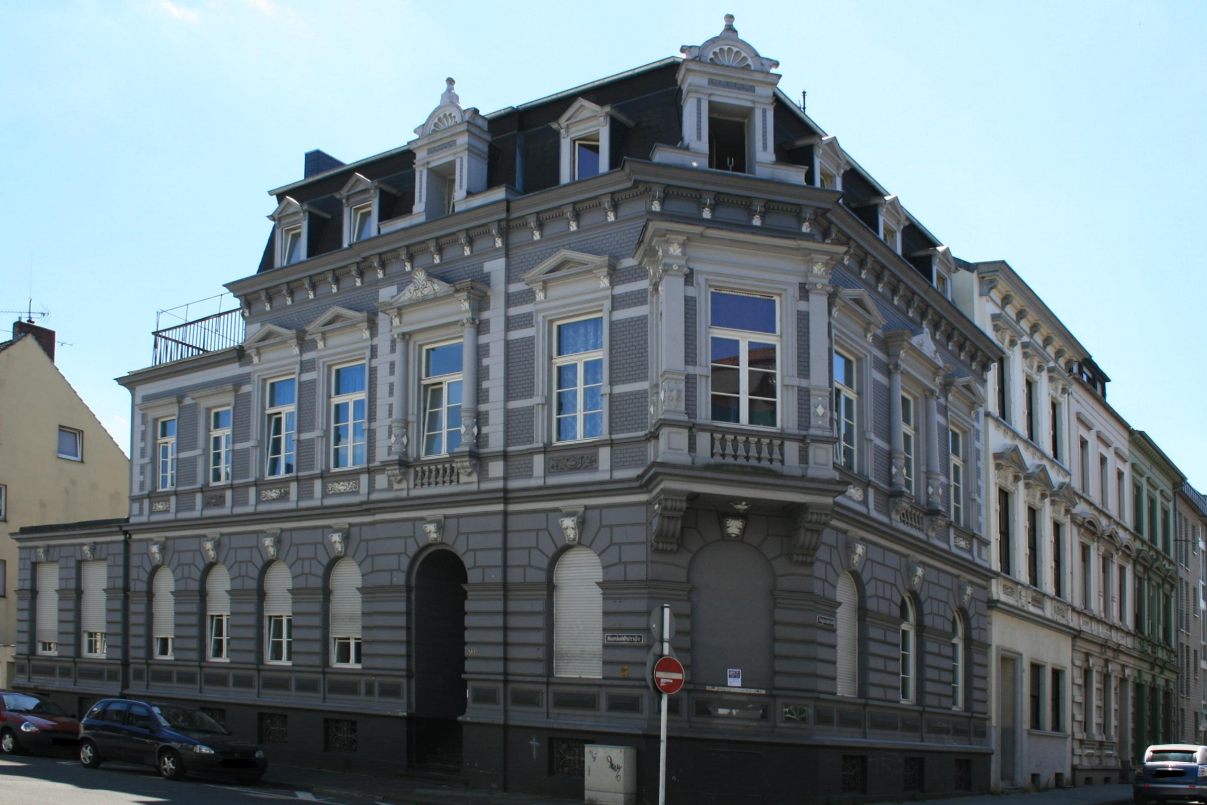 Cultural heritage monument No. H 004 in Mönchengladbach